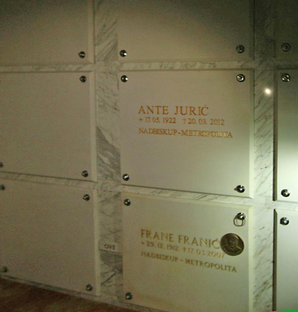 Frane Franic Crypt